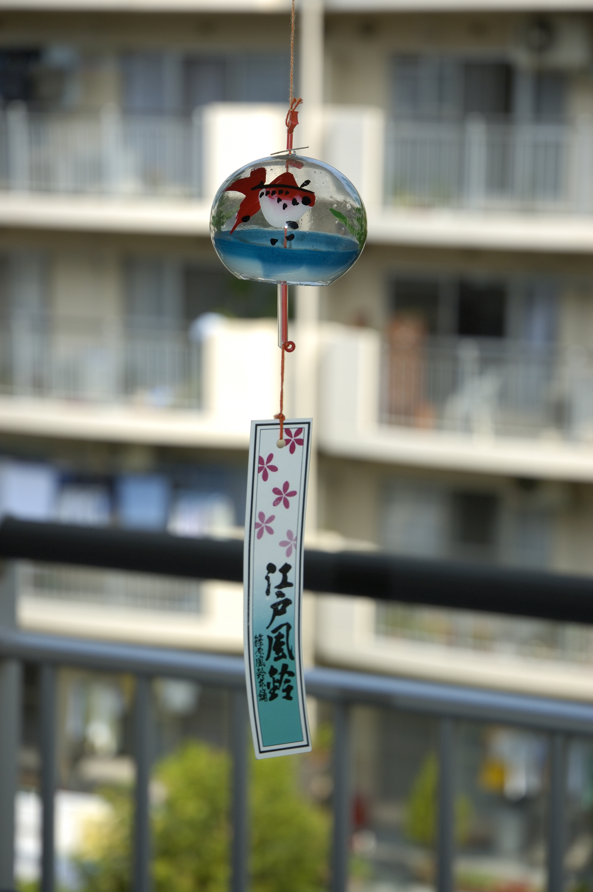 Japanese wind chime fūrin (風鈴) used only during hot humid summers in Japan. The pleasant sound that it makes brings a feeling of coolness and relief.